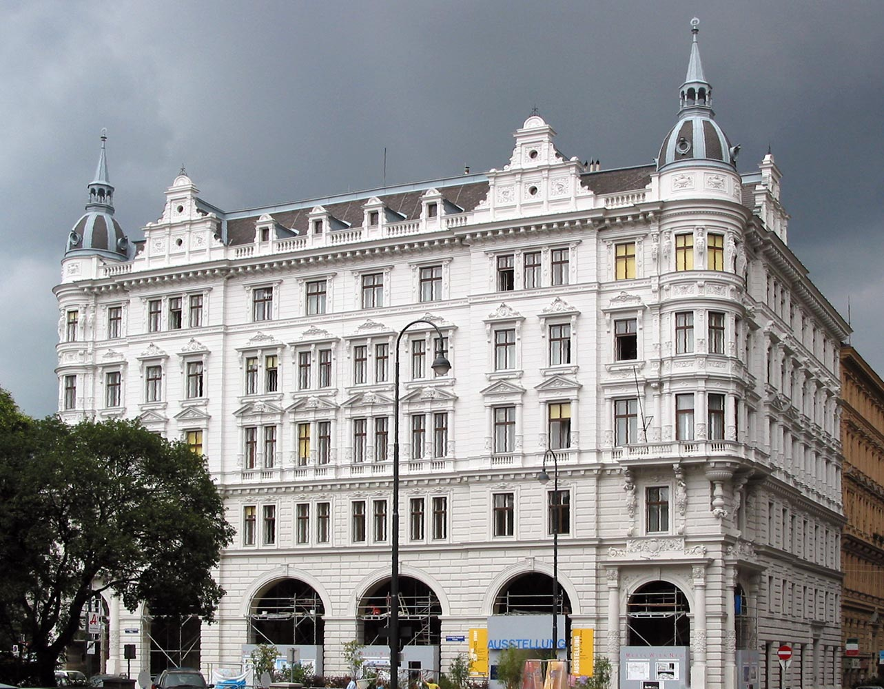 Home of the City of Vienna Court of Audit (Rathausstrasse 9, 1082 Vienna), Austria